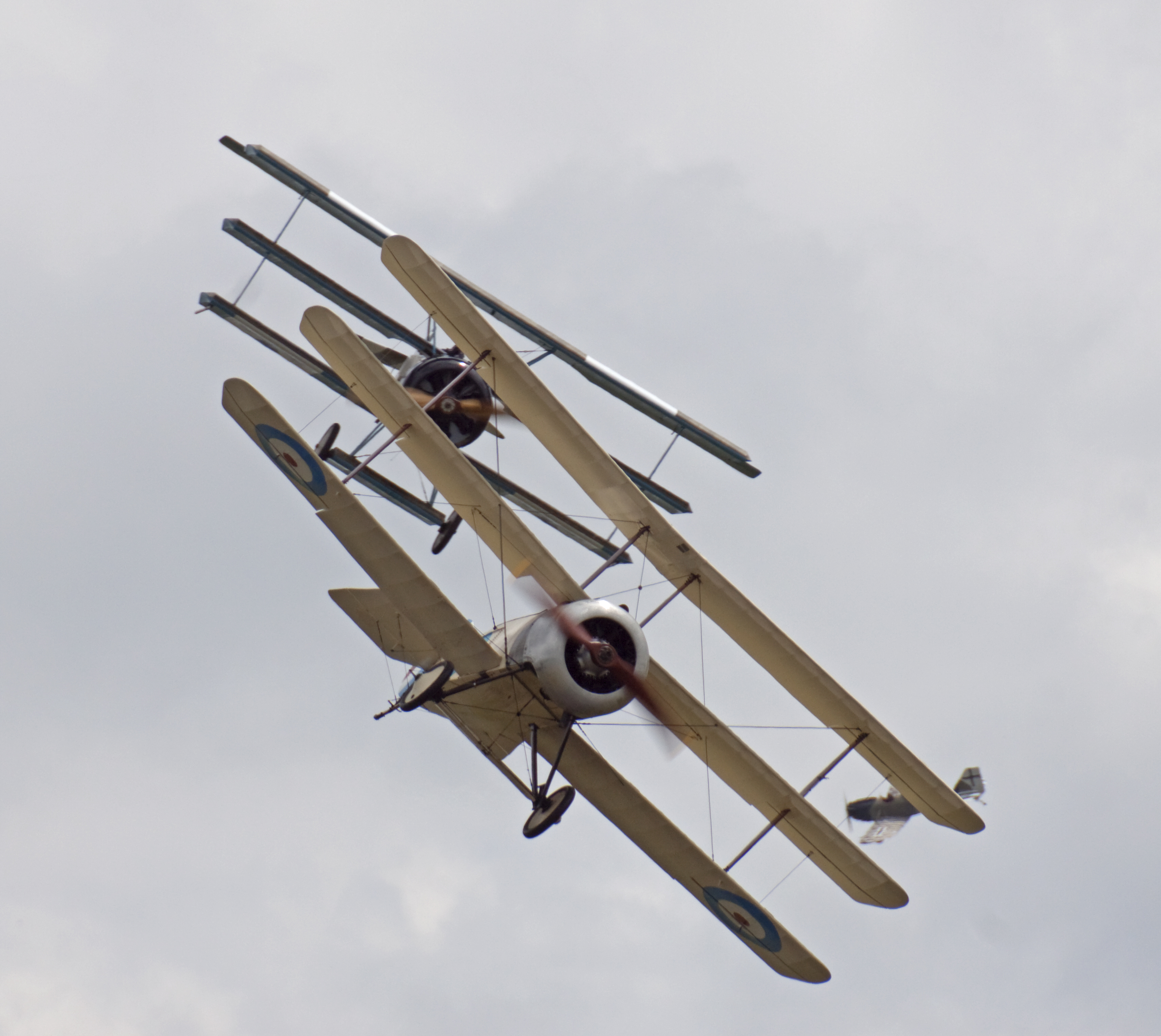 Battle of the Triplanes 1